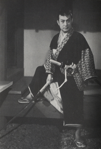 Utaemon Ichikawa in 1952 Japanese movie Hatamoto taikutsuotoko: Edojyo Makaritoru（The Idle Vassal: Get by Edo Castle）.